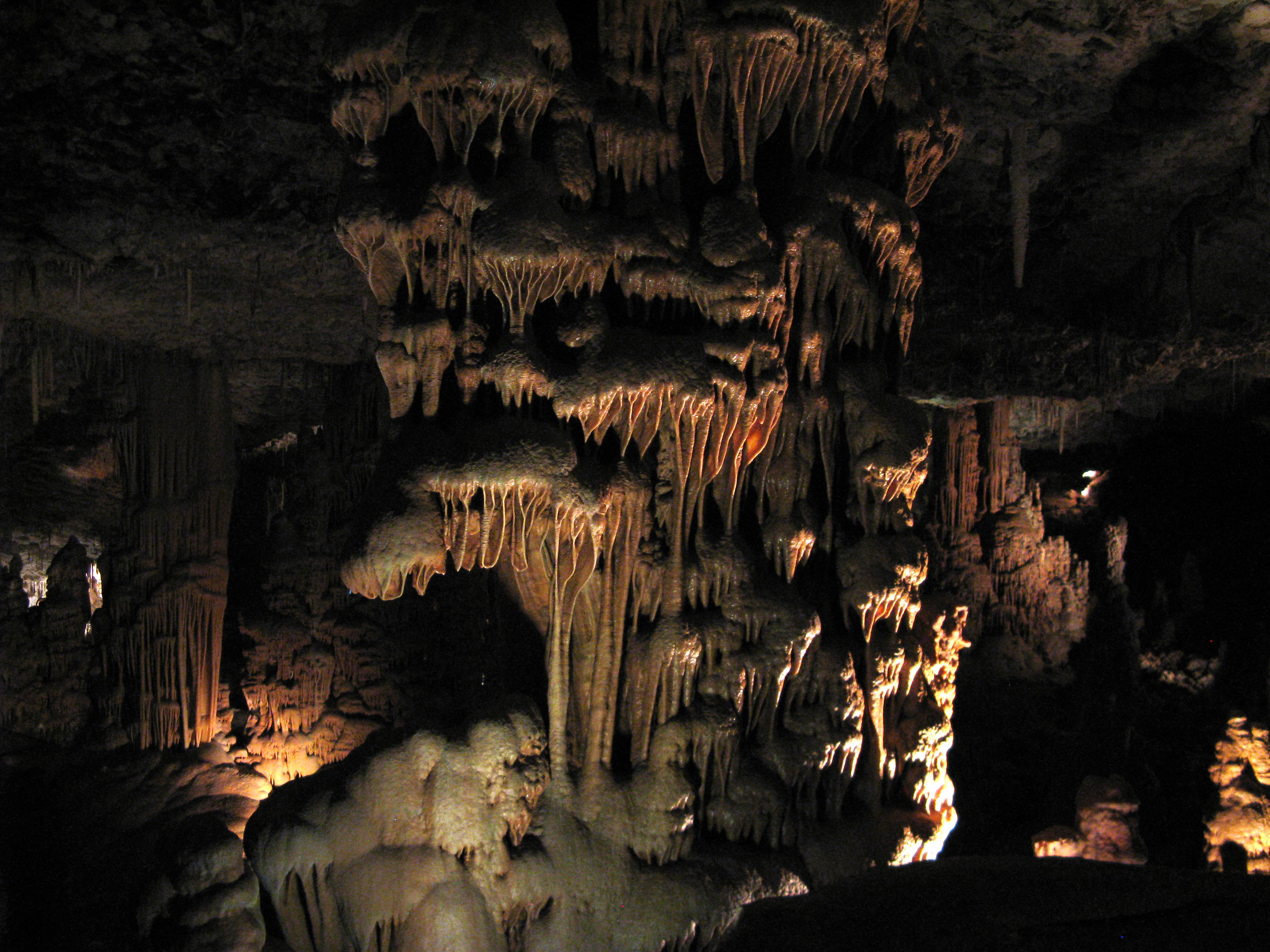 Soreq Cave